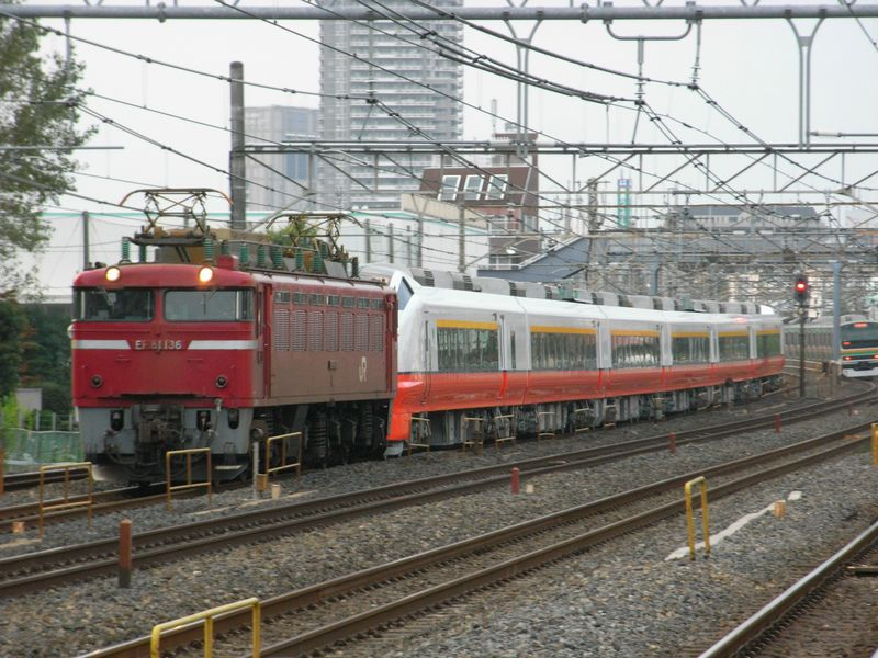 A JR East E751 series EMU set being hauled by a Class EF81 electric locomotive on its way to/from Omiya Works for overhaul